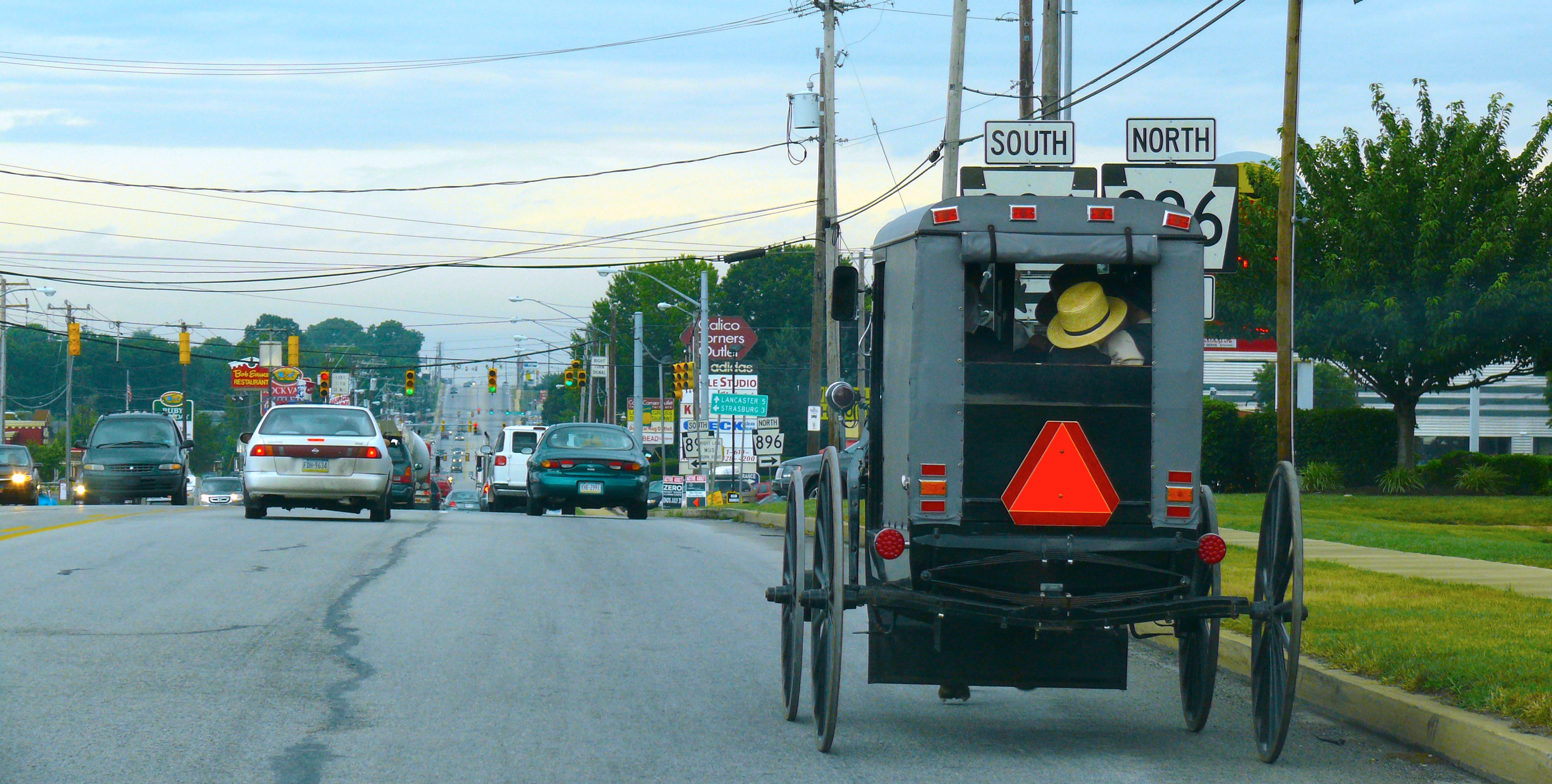 Amish buggy on U.S. Route 30 in Lancaster County, Pennsylvania. Note that the reflectors and orange triangle are concessions to Pennsylvania traffic laws.